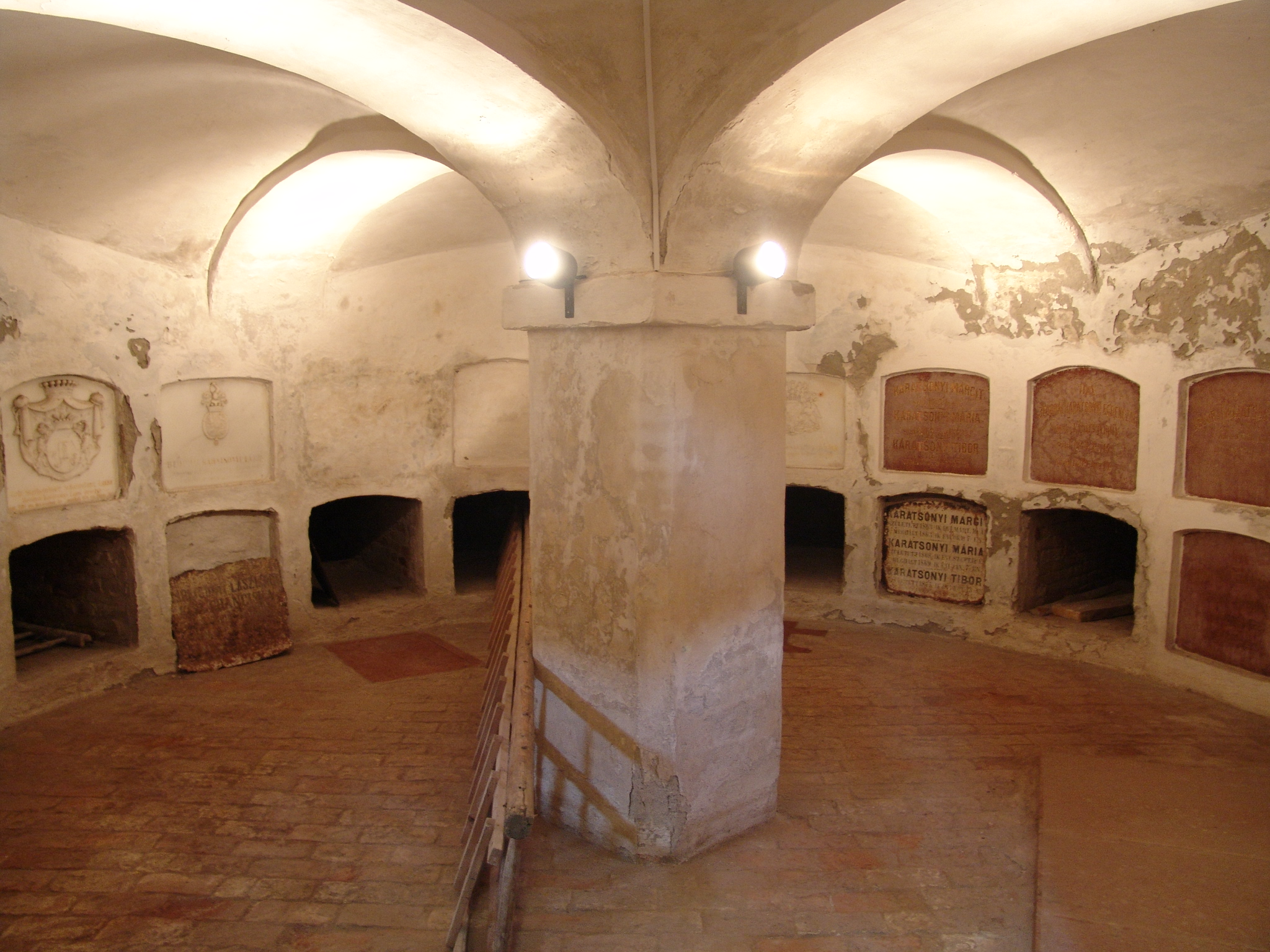 Roman Catholic church in Beodra - family crypt Српски (ћирилица): Rimokatolička crkva u Beodri - porodična kripta